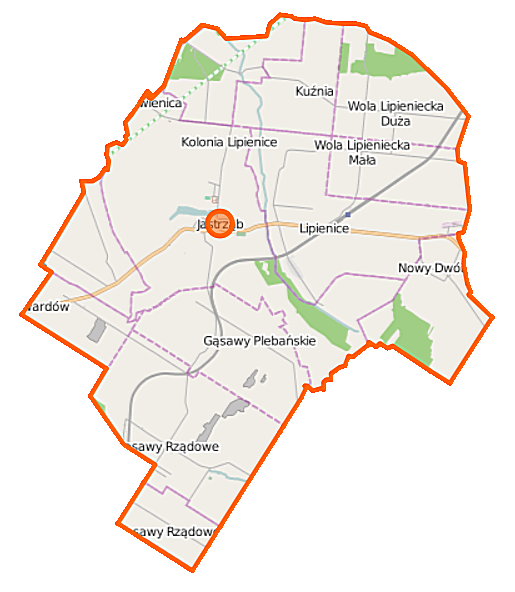 Map of Gmina Jastrząb, Poland This map of Jastrząb (gmina) was created from OpenStreetMap project data, collected by the community. This map may be incomplete, and may contain errors. Don't rely solely on it for navigation. Border coordinates51.285320.8884←↕→21.030251.1834